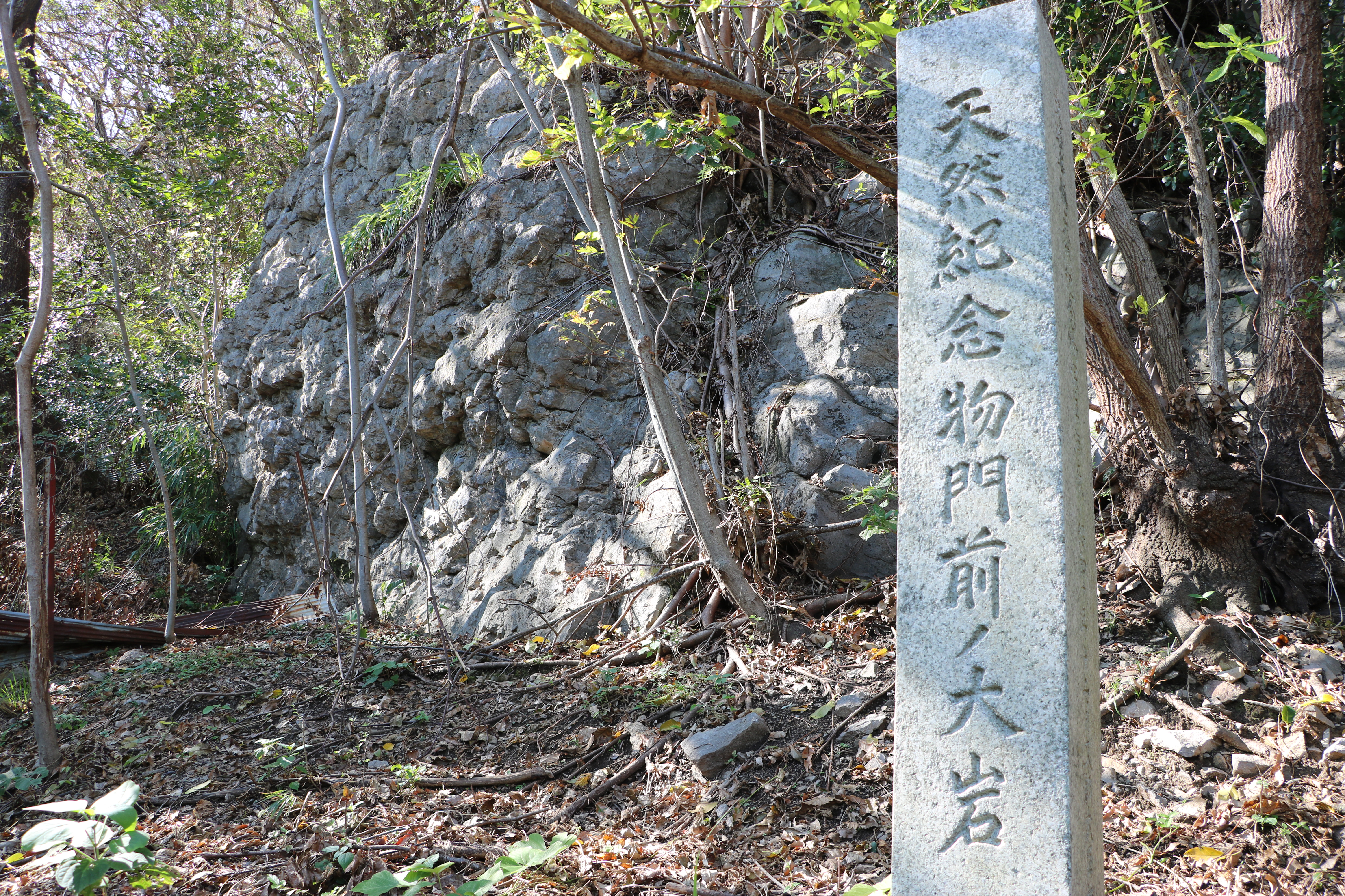 Stone monument in Monzen no Oiwa, natural monument of Japan